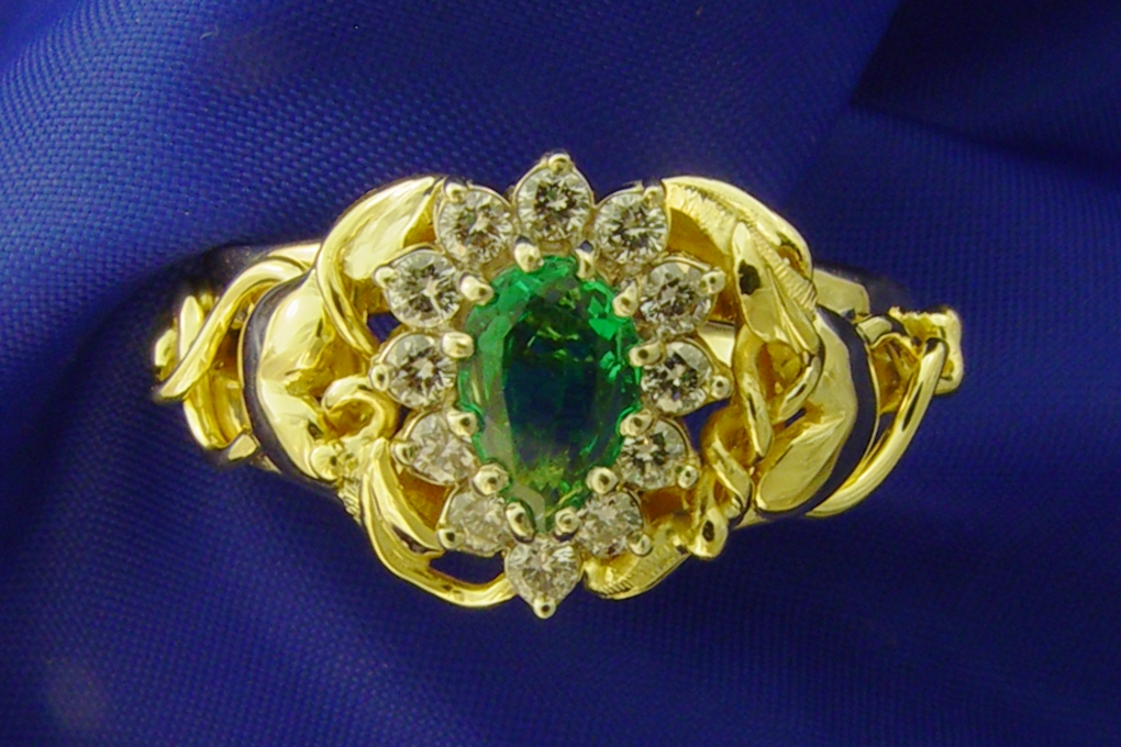 top view. 18kt yellow gold ring set with one pear shape emerald and 12 diamonds.